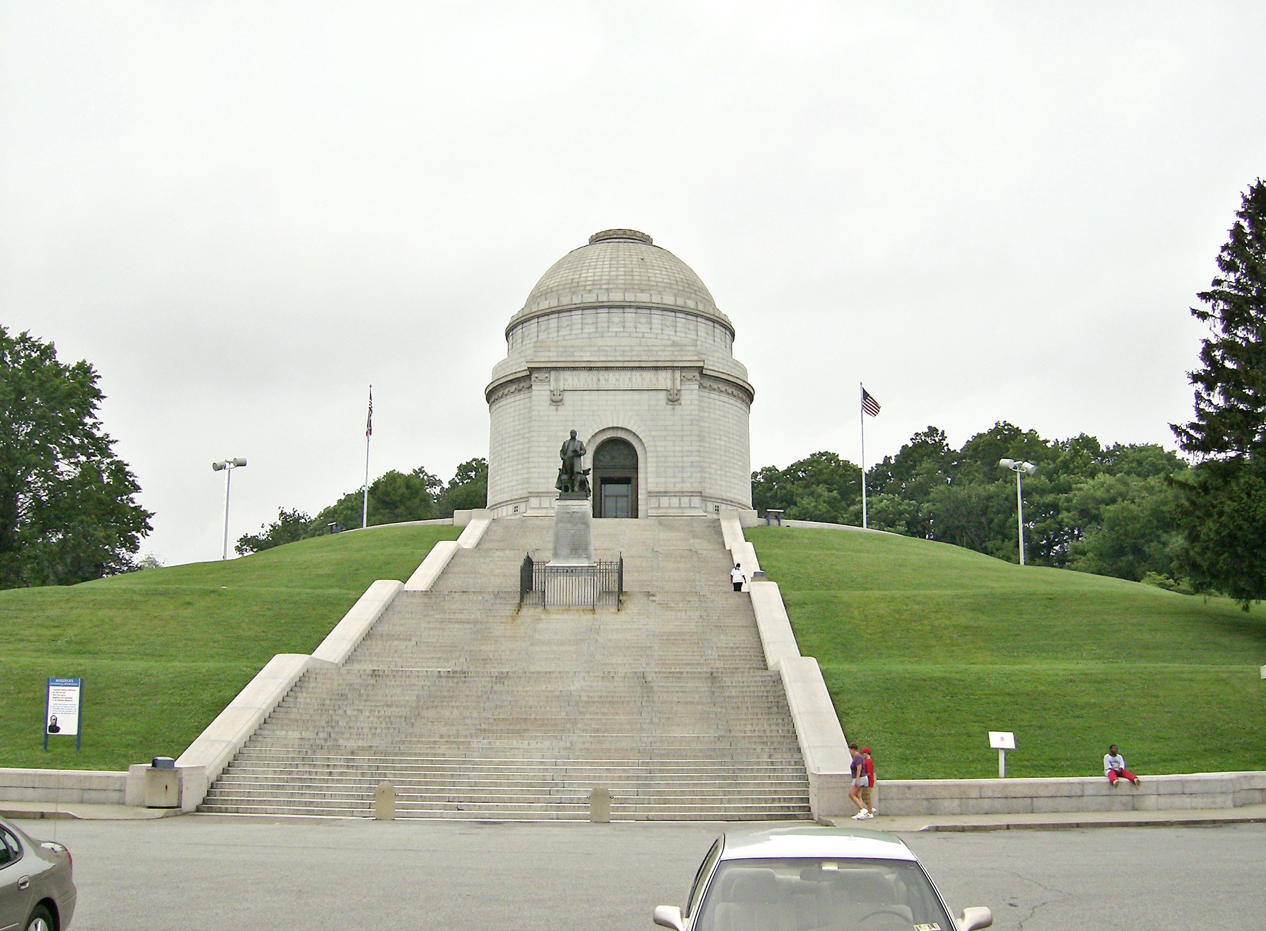 Grave of US president William McKinley. McKinley National Memorial, Canton OH.